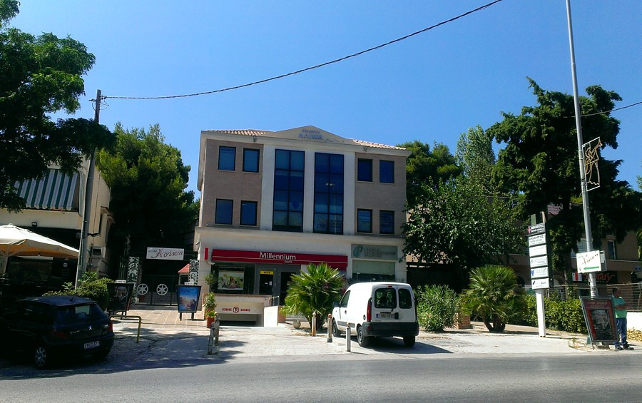 μέλαθρον